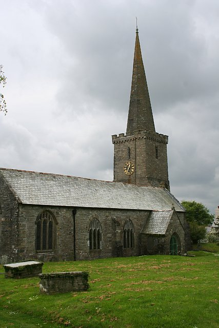 Menheniot Church. This parish church has a fine peal of bells which was clearly heard as I approached the village during bell-ringing practice.